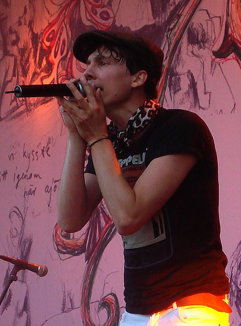 author: Agnieszka Szwarc